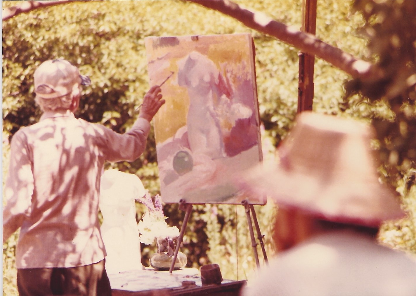 Henry Hensche; painting demonstraion circa 1975